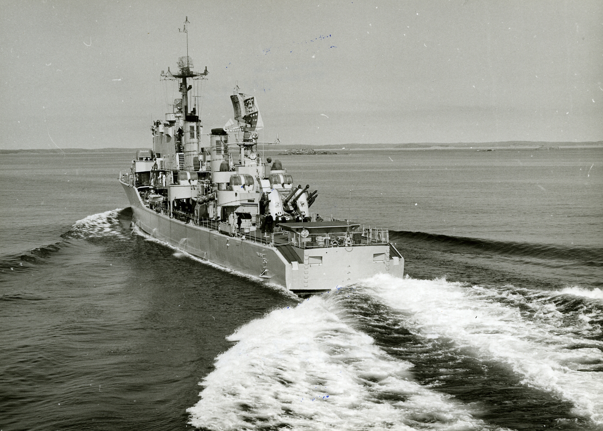 The Swedish destroyer HMS Halland. Halland was in the service of the Swedish Navy between 1952 and 1987, before she was laid up in Spain.